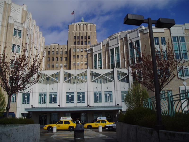 Harborview Hospital in Seattle, Washington. Taken on March 20, 2005.